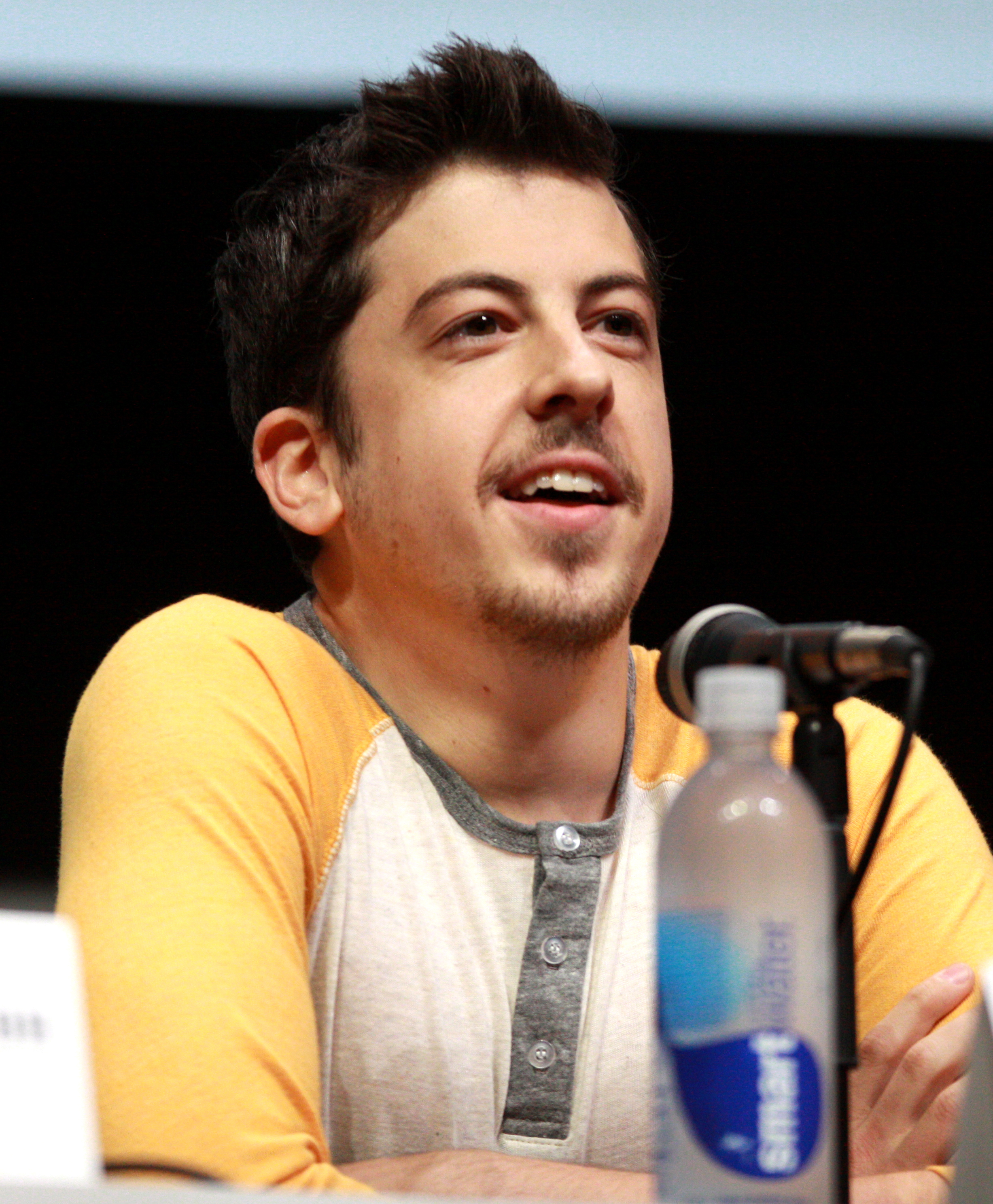 Christopher Mintz-Plasse at the 2013 San Diego Comic Con International in San Diego, California.